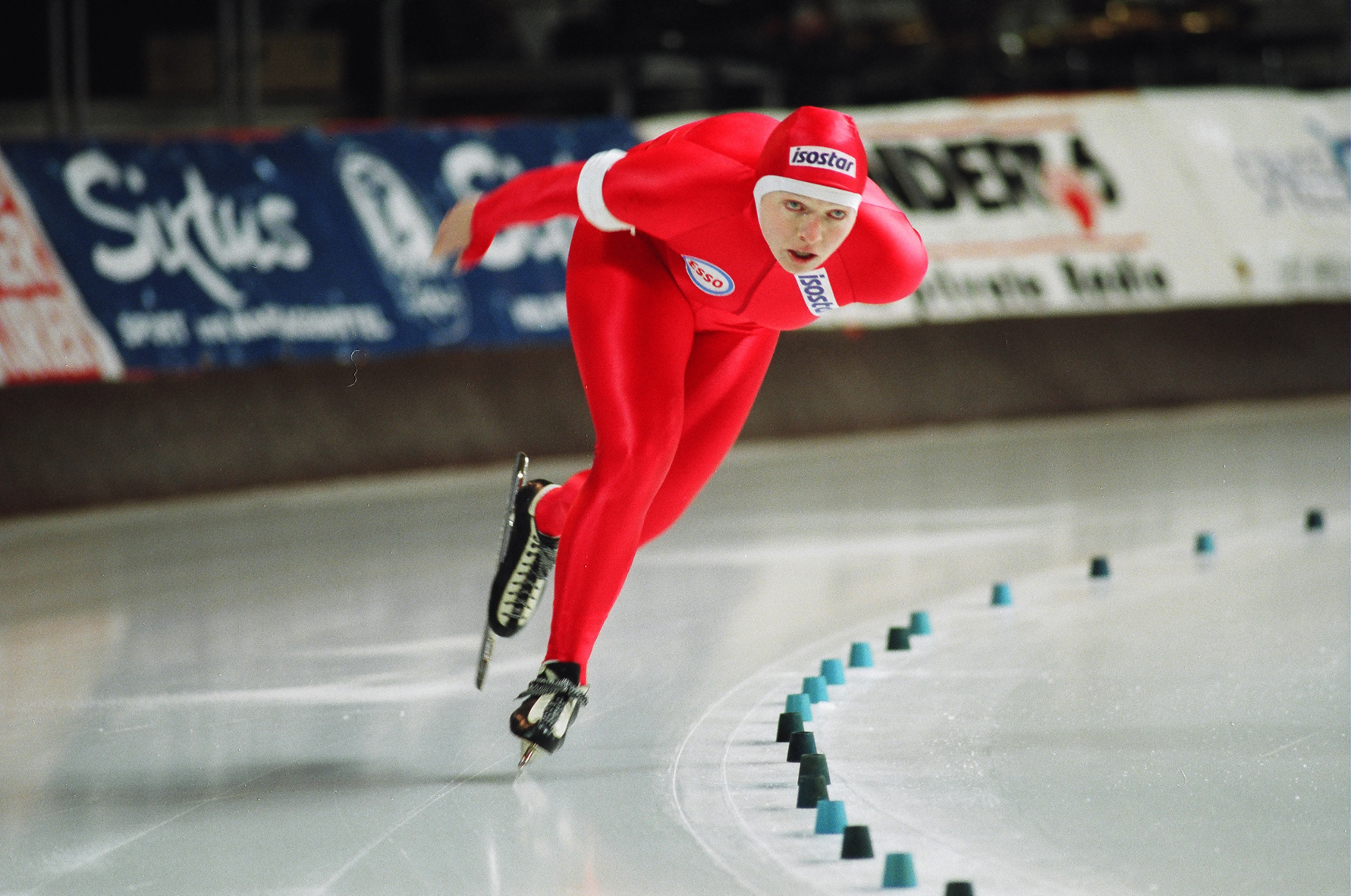 Edel Therese Høiseth, former speedskater from Norway